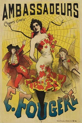 Eugénie Fougère at the Parisian café-concert Café des Ambassadeurs. Here she is depicted as a sexy incarnation of a spider, attracting and catching men in her web.